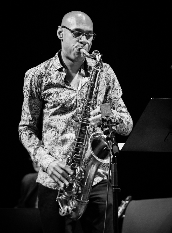 Joshua Redman with Trondheim Jazz Orchestra and Eirik Hegdal at the stage of Kongsberg Musikkteater. The concert was part of Kongsberg Jazzfestival and took place on 06. July 2017. Solist: Joshua Redman (saxophone) Artistic director: Eirik Hegdal (saxophone) Trondheim Jazz Orchestra: Trine Knutsen (flute) Stig Førde Aarskog (clarinet) Eivind Lønning (trumpet) Stein Villanger (french horn) Daniel Weiseth Kjellesvik (french horn) Tor Haugerud (drums) Erik Johannessen (trombone) Ola Kvernberg (violin) Marianne Baudouin Lie (cello) Øyvind F. Engen (cello) Nils Olav Johansen (guitar) Ole Morten Vågan (double bass)